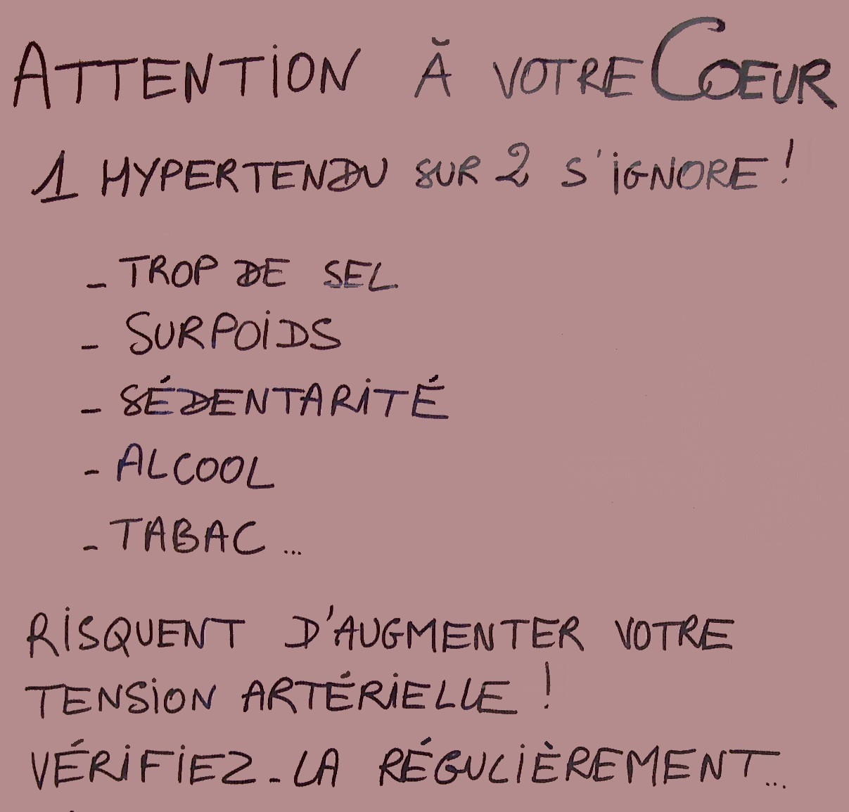 Information about hypertension - message found in a pharmacy.